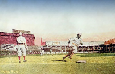 An early 19th century postcard depicting a game at Palace of the Fans